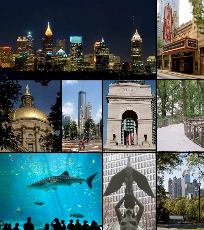 Montage of Atlanta images. From top to bottom left to right: Atlanta skyline Fox Theatre Georgia State Capitol Olympic Centennial Park Millennium Gate Canopy Walk Georgia Aquarium Midtown Skyline